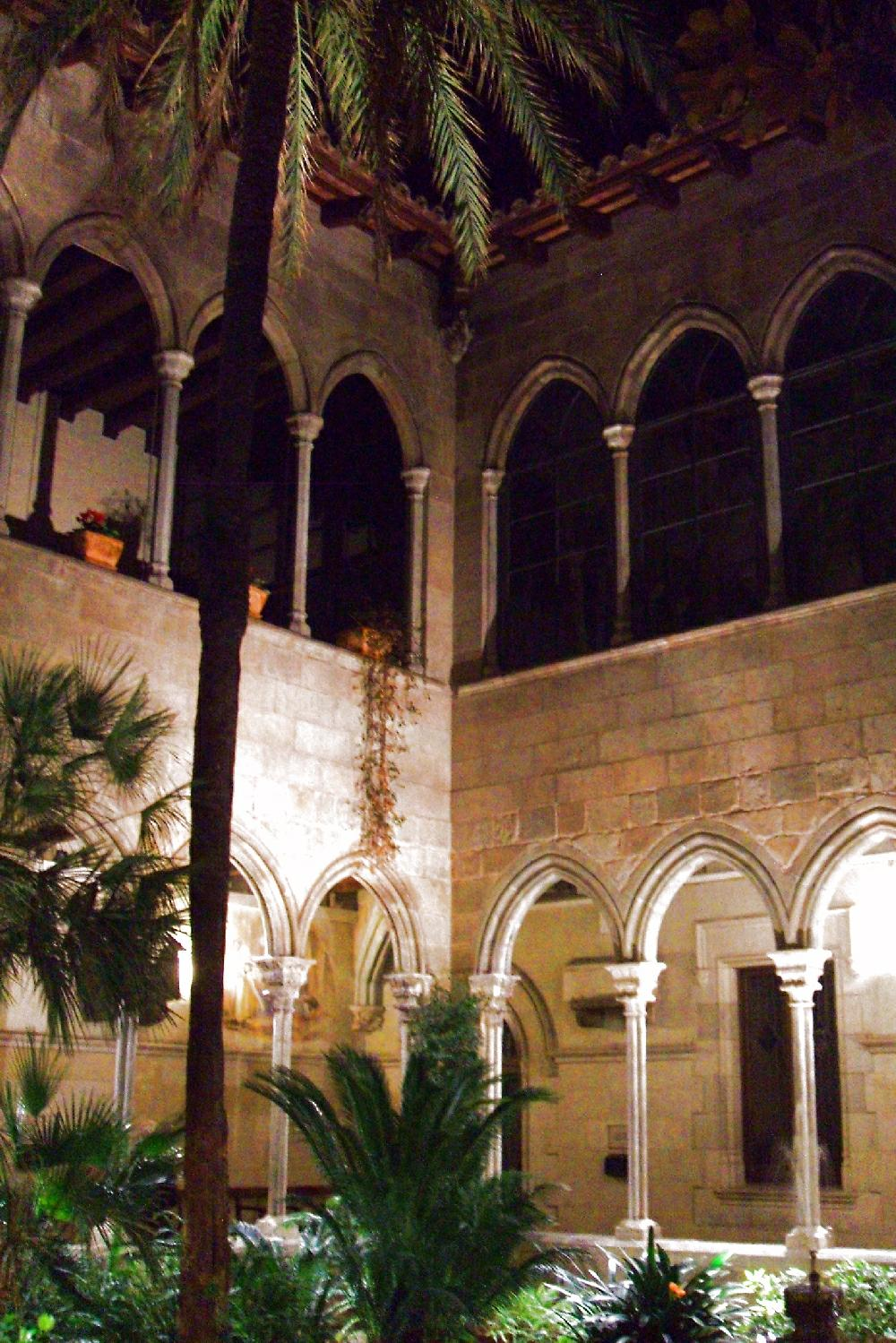 Claustro gótico del antiguo Monasterio de Jonqueres, hoy en la iglesia parroquial de la Concepción, en Barcelona (Cataluña, España)